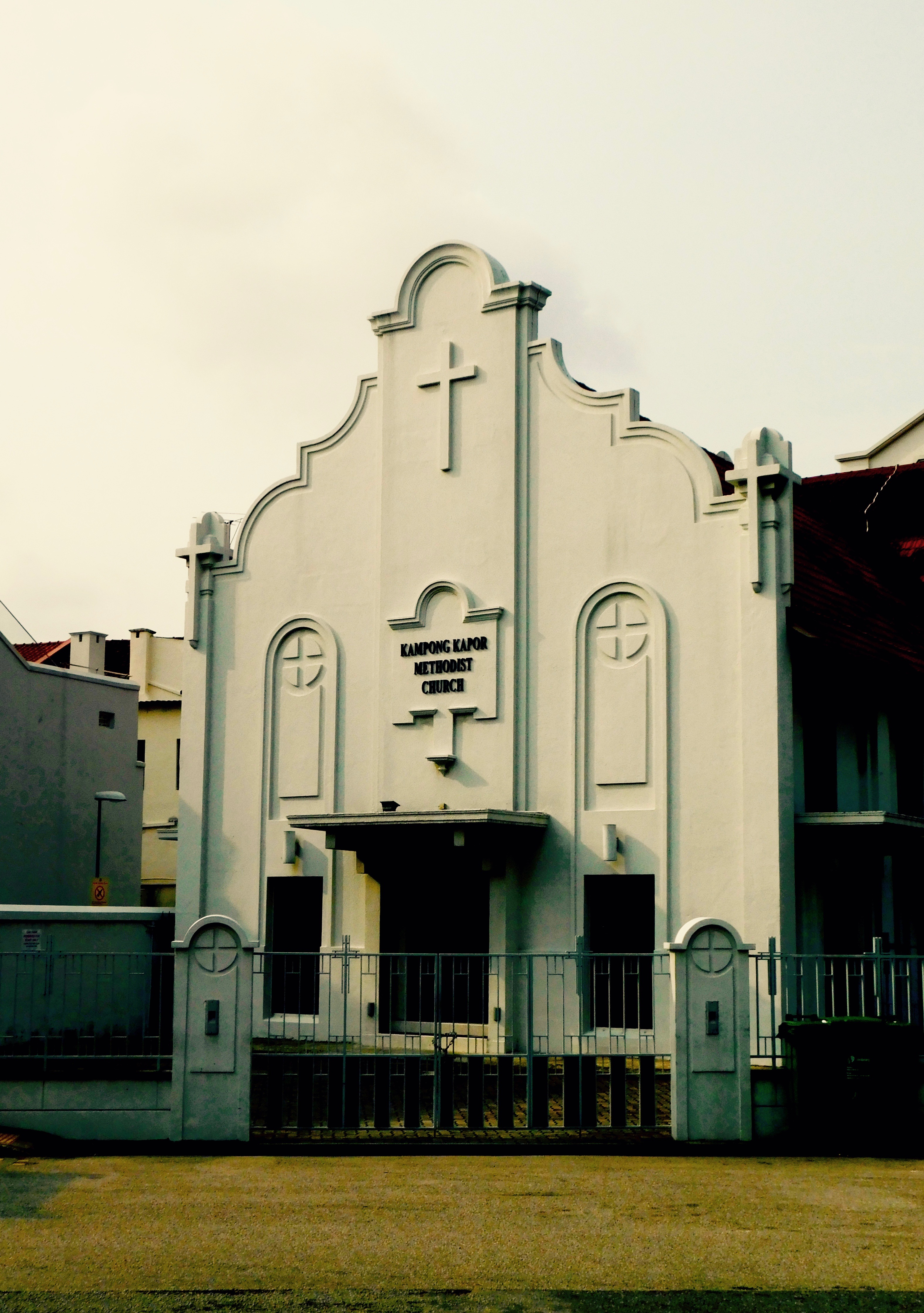 Kampong Kapor Methodist Church was founded in Singapore in 1894. It is a Methodist church located in the midst of Singapore’s Little India.